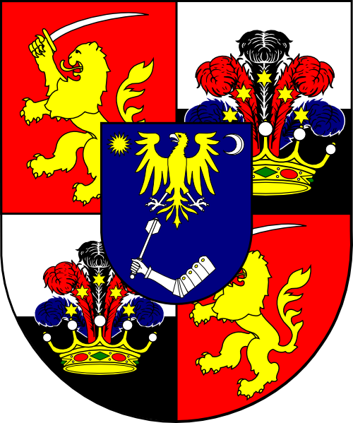 Coat of arms (shield only) of Sándor Dessewffy, bishop of Csanád, Hungary (1890 - 1907). Based on stained-glass in St. Elisabeth Cathedral in Košice, tinctures based on Siebmacher: Ungarn, p. 133, Tab. 104.